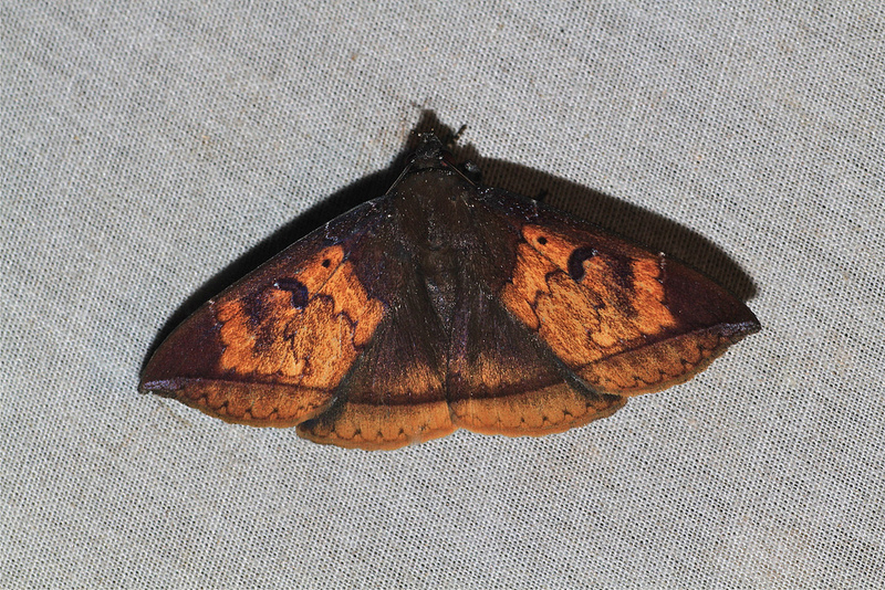 Borneo, Trusmadi area